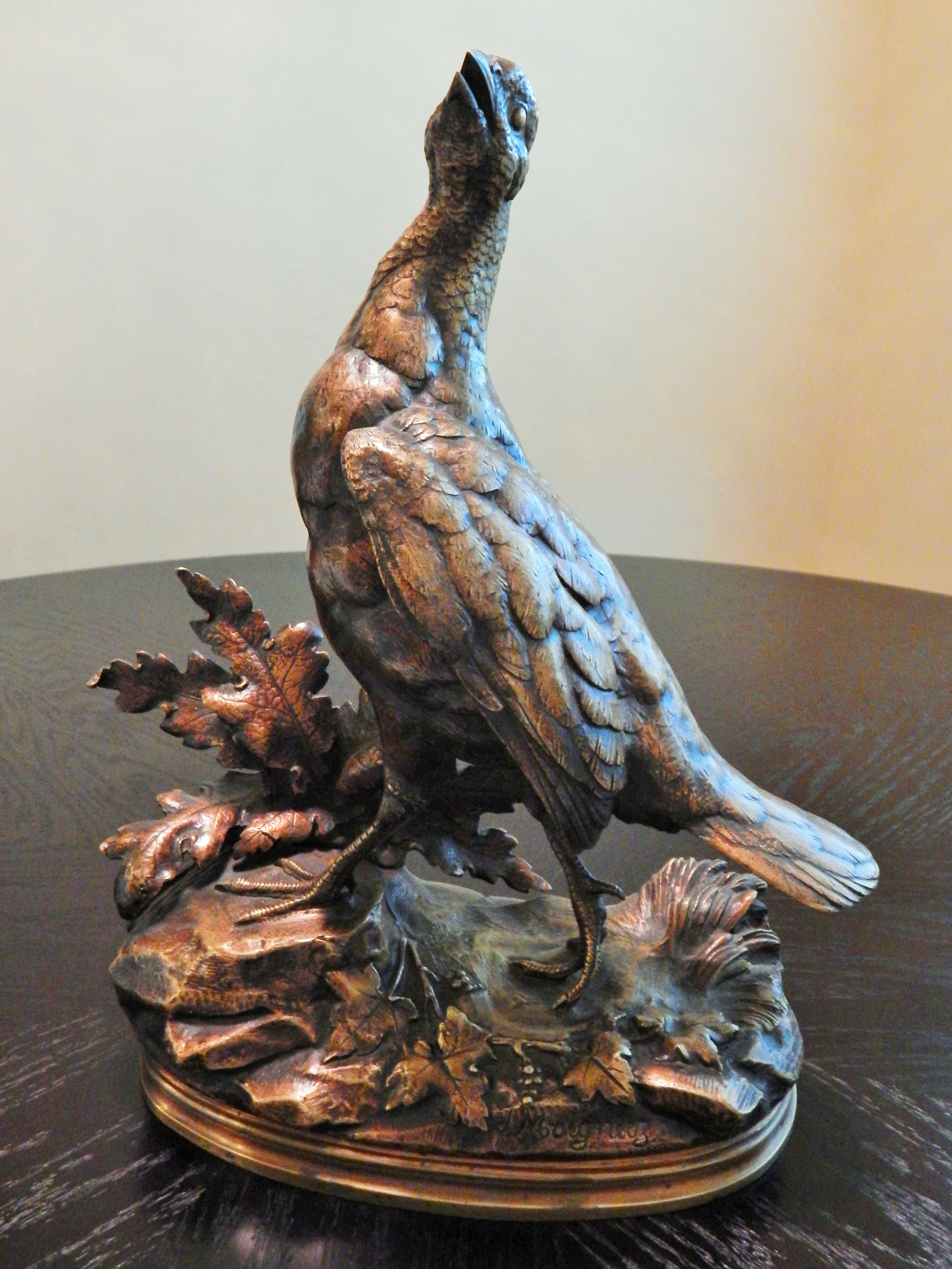 A circa 1880 bronze sculpture of a bird by French animalier sculptor Jules Moigniez (1835-1894).